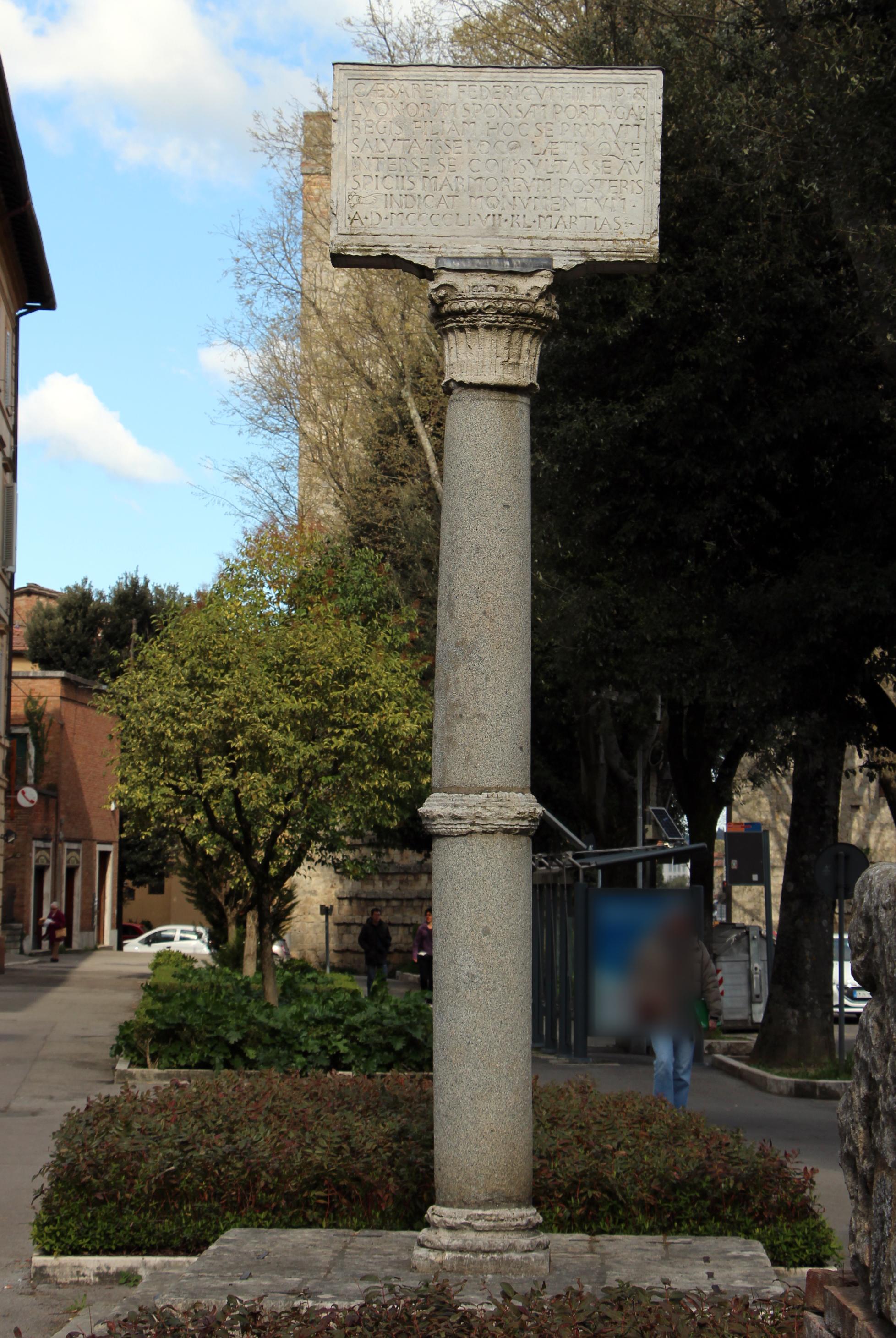 Colonna del Portogallo